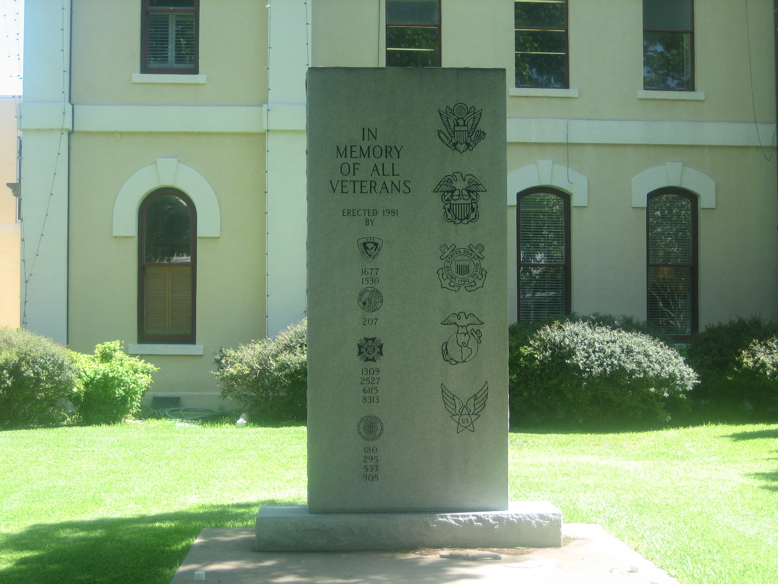 I took photo on May 21, 2009.Billy Hathorn (talk) 02:27, 31 May 2009 (UTC)